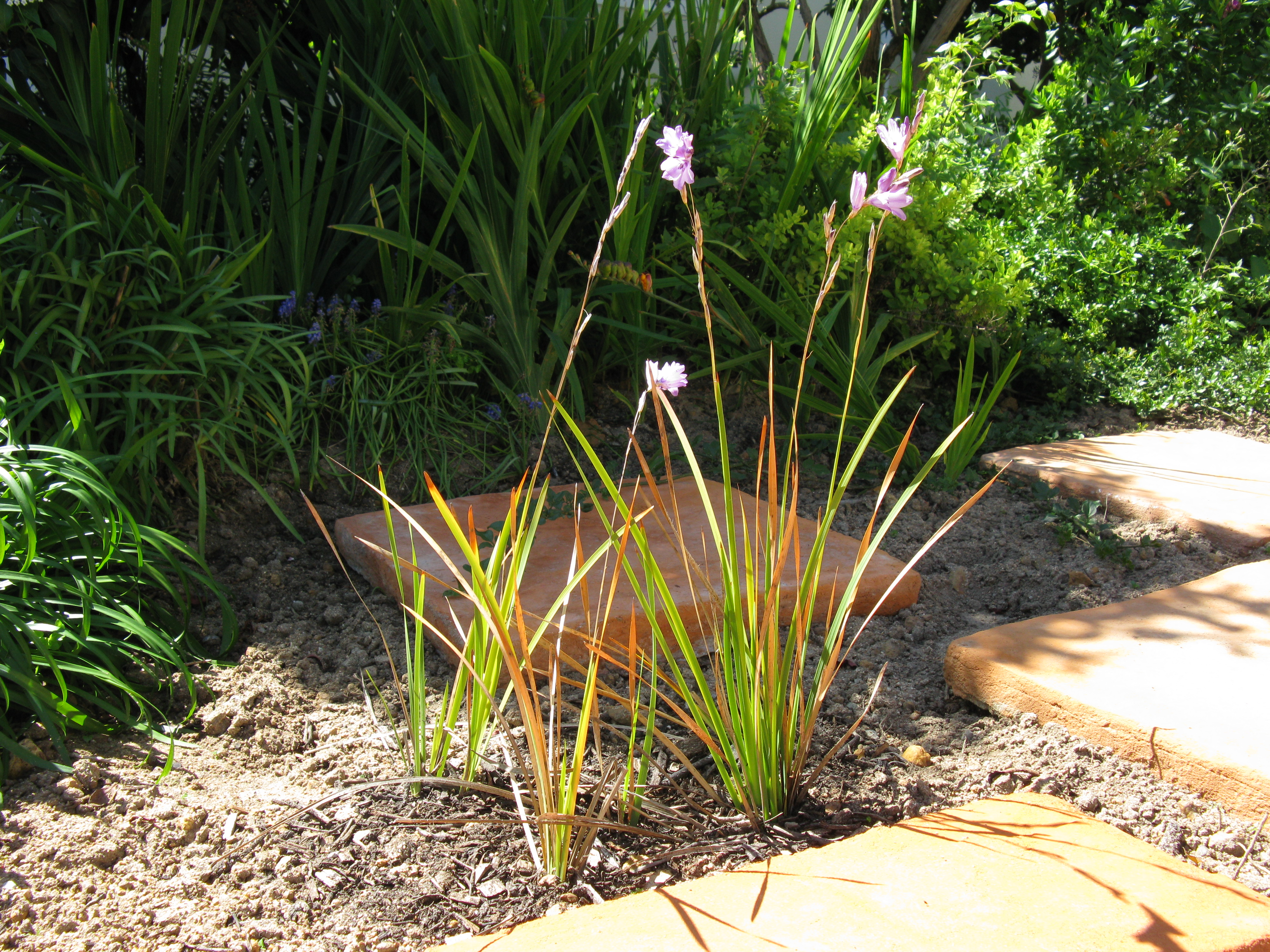 A pretty plant, useful in the garden, evergreen, undemanding, but smaller than most Dieramas, and a less gracefully penduous scape.